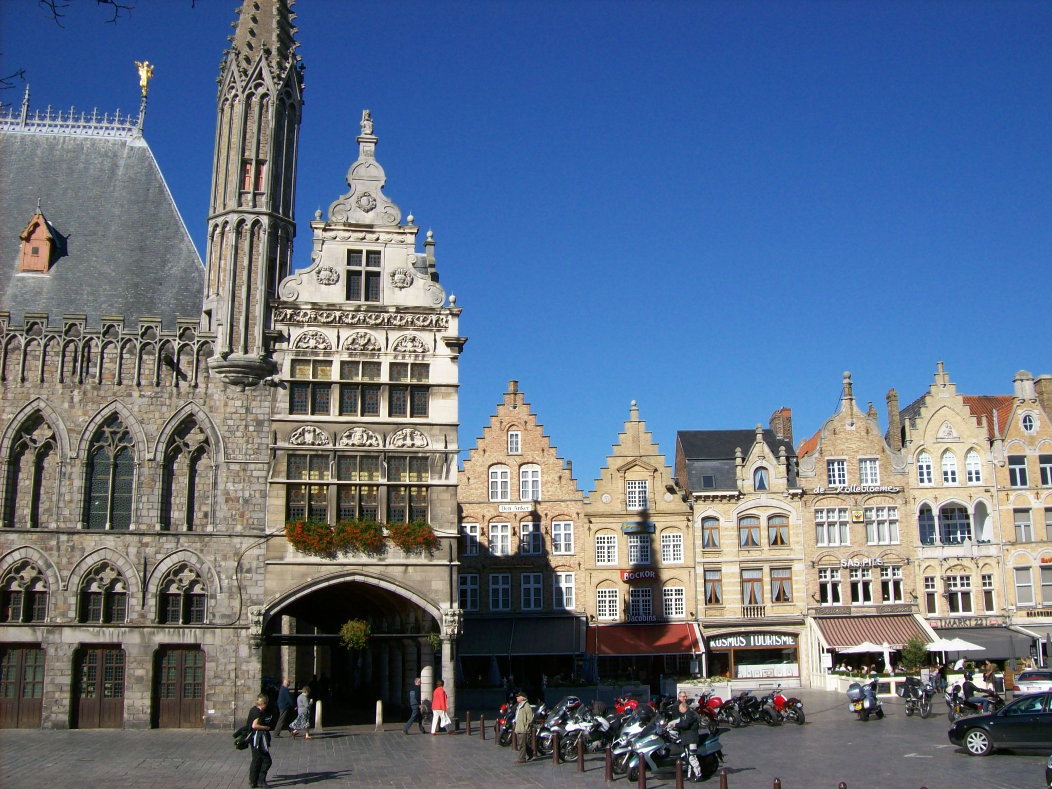 Grote Markt, Ieper/Ypres